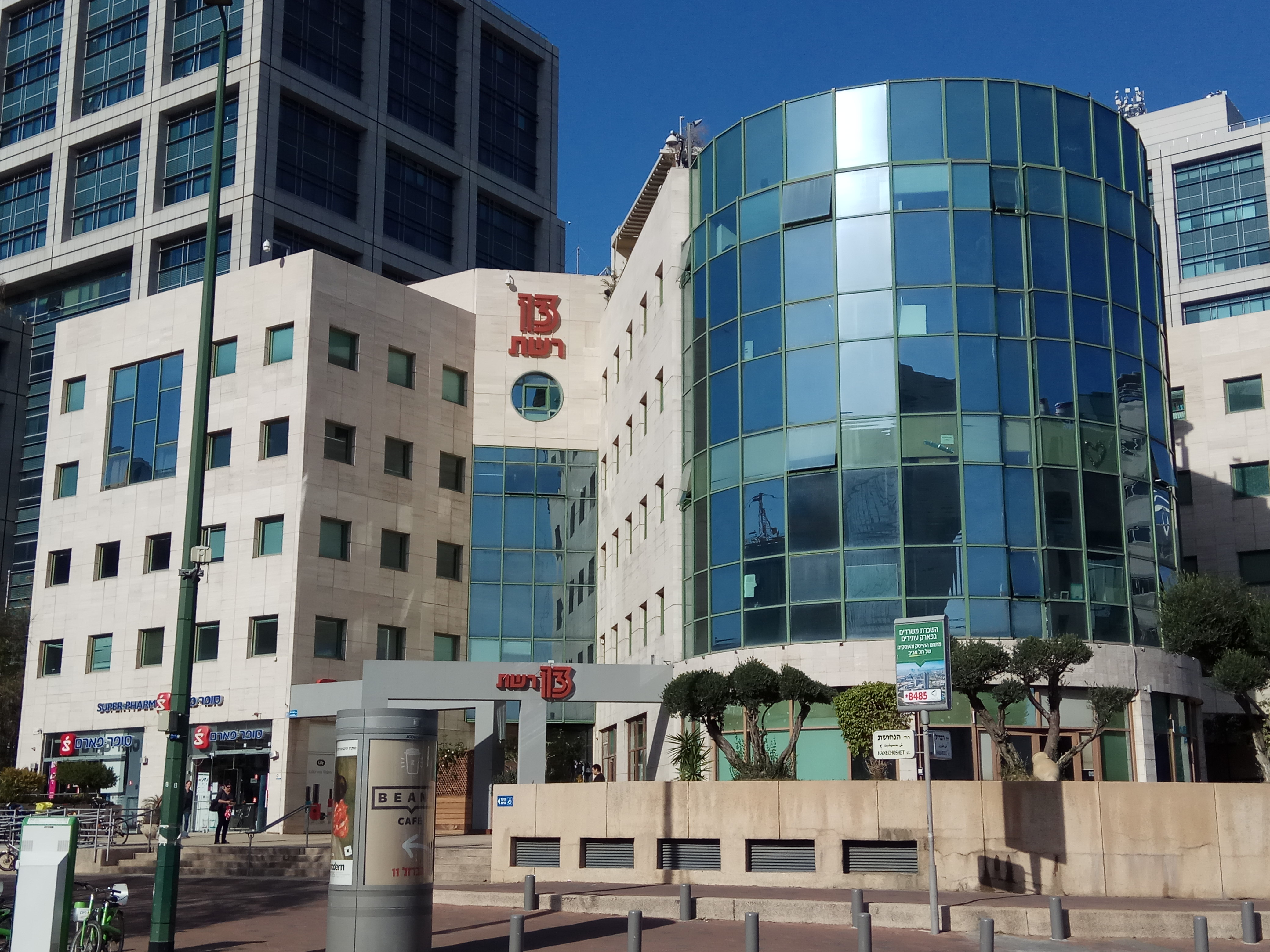 Reshet building in Tel Aviv